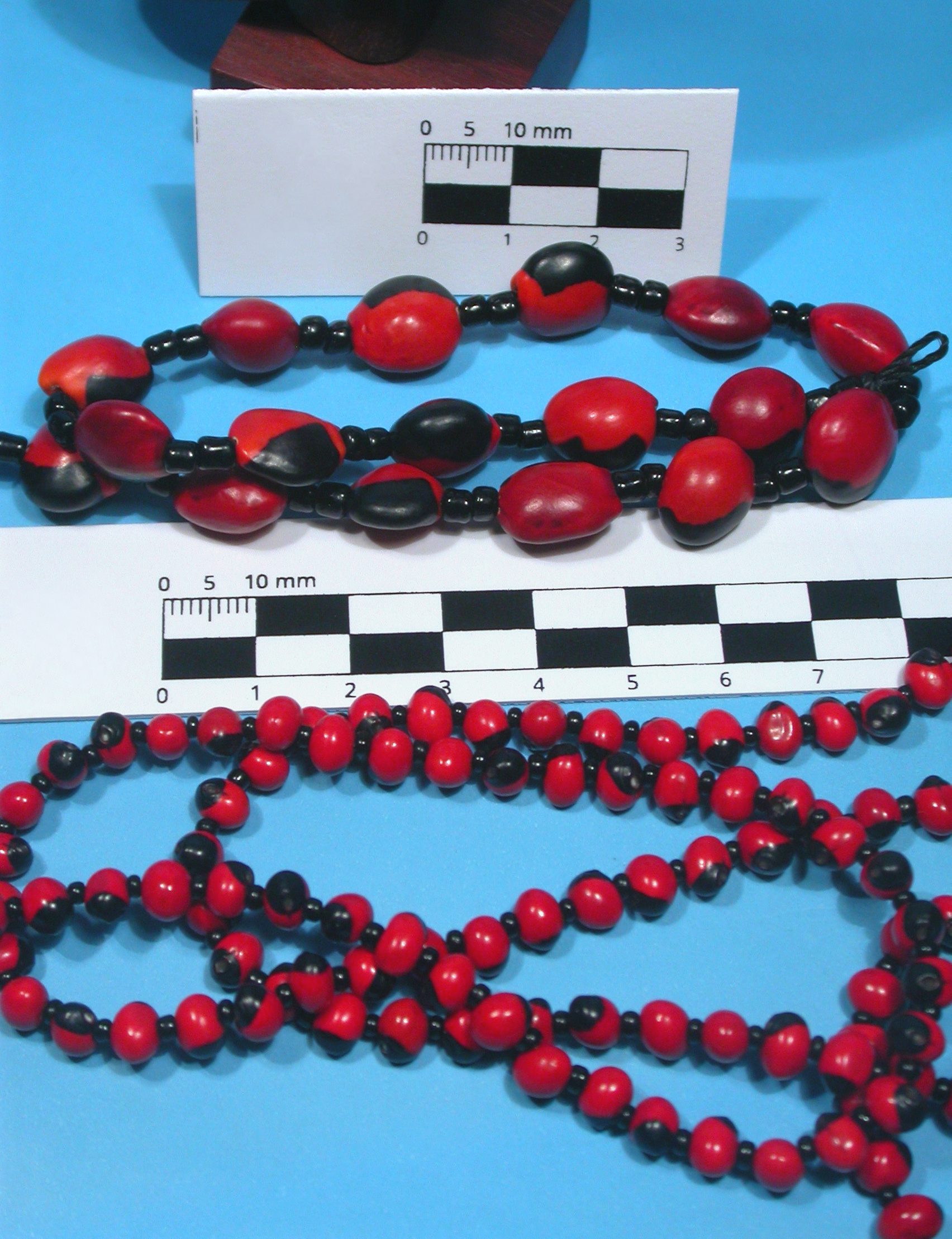 Two necklaces made from seeds (above: Ormosia coccinea; below: Abrus precatorius) combined with black beads.